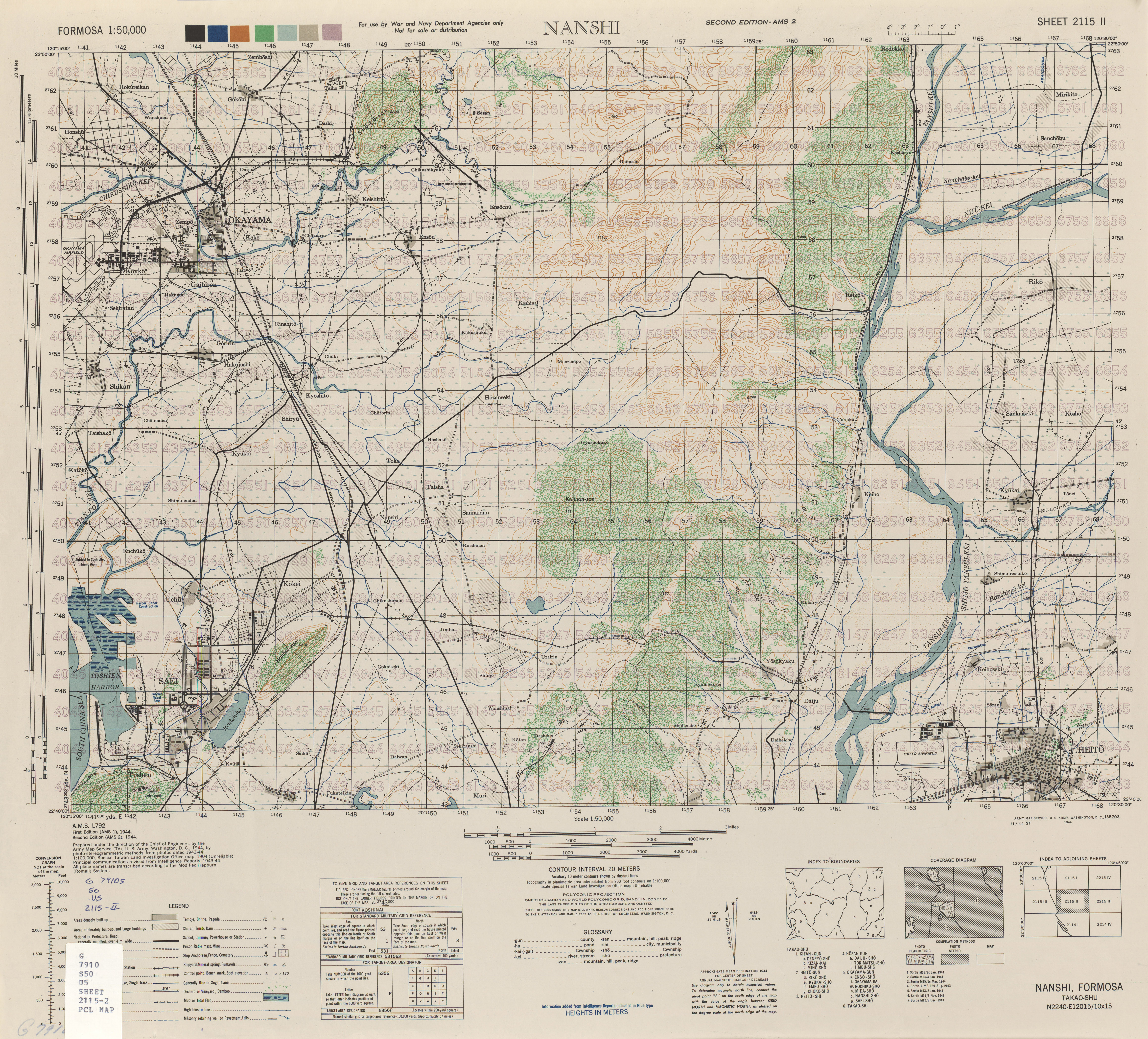 Map from Formosa (Taiwan) 1:50,000 AMS Series L792